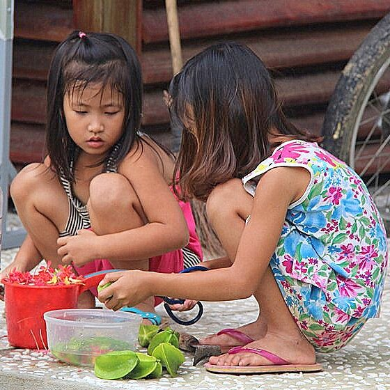 Two squatting little girls in Vietnam